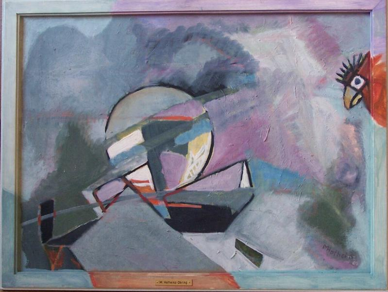 Geometrical Event, Oil Painting, 54x43cm, 1961 (WV-Nr.80), by Margret Hofheinz-Döring